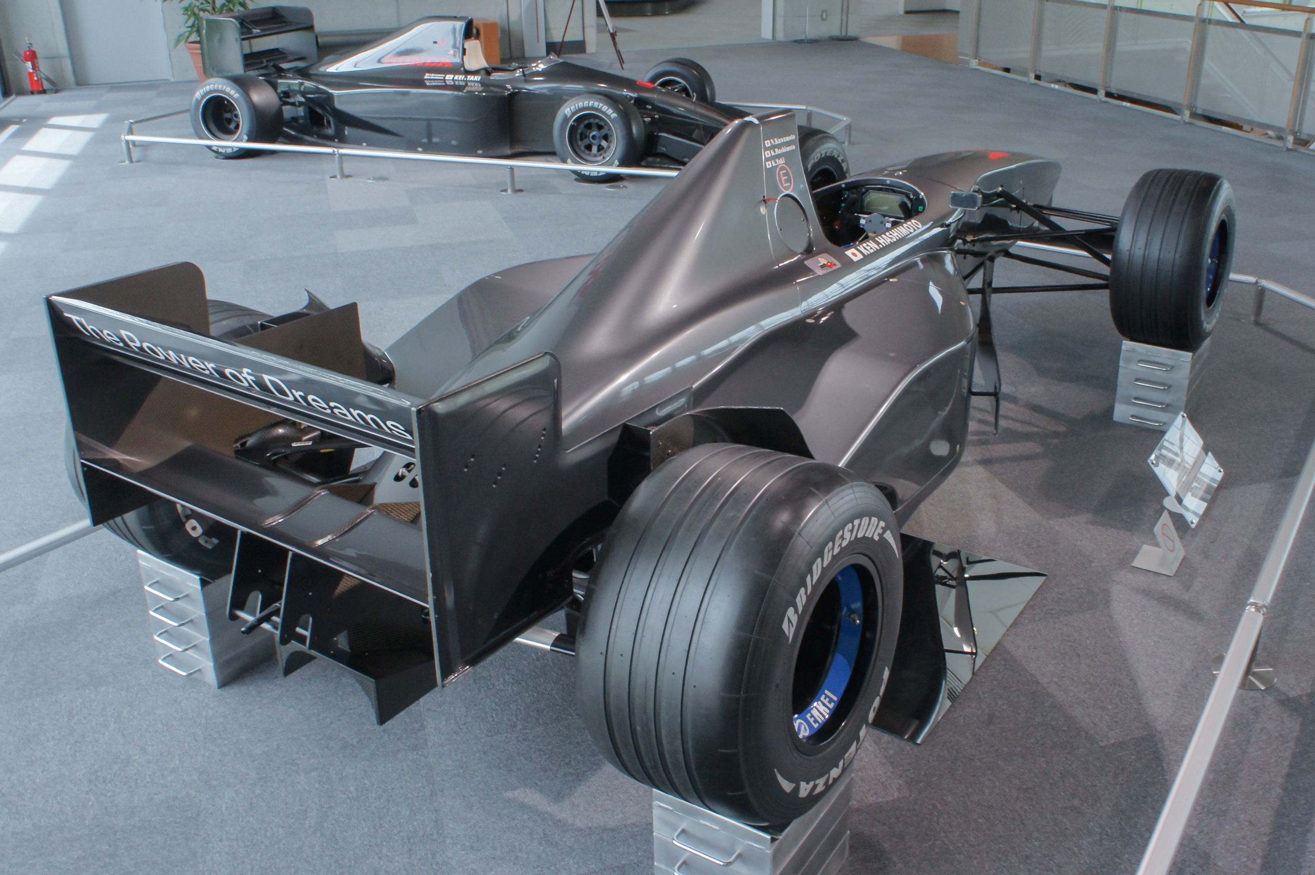 1996 Honda RC-F1 2.0X